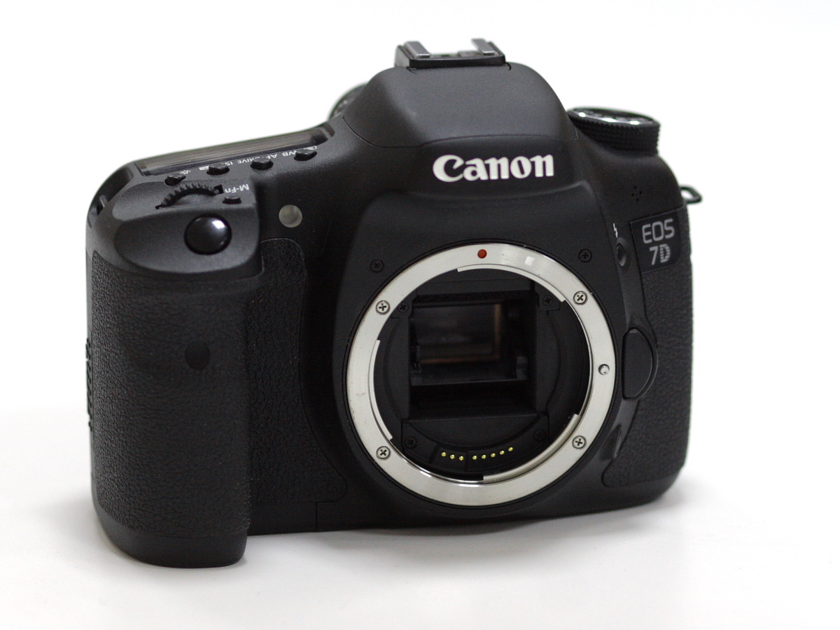 Canon EOS 7D, front view.